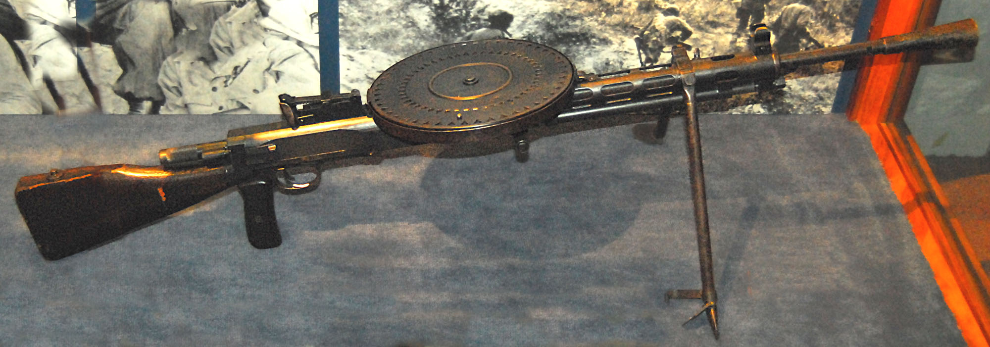 Type 53 Chinese submachine gun- a variant of Soviet DPM, taken at Battery Randolf US Army Museum, Honolulu.